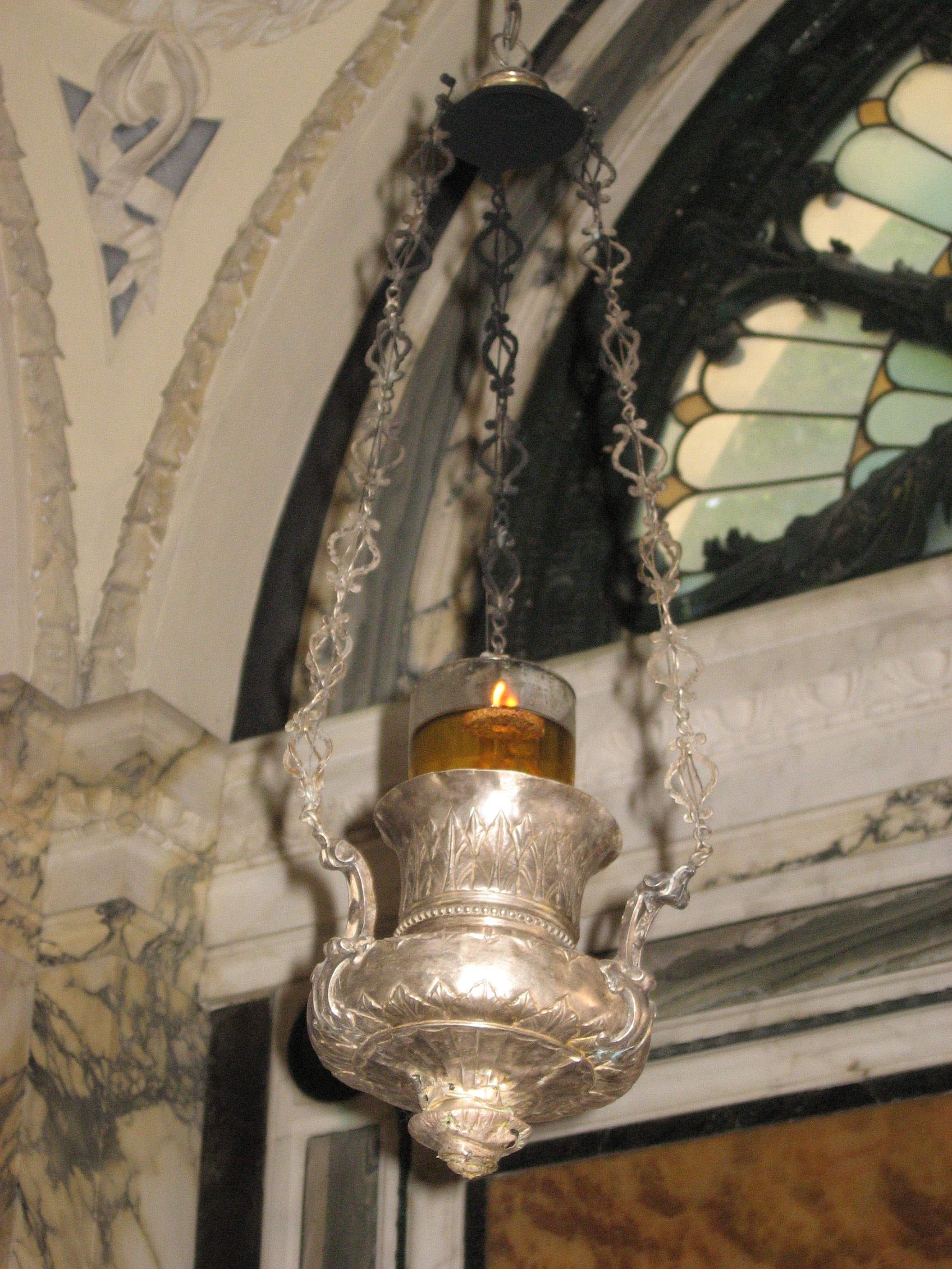 The oil lamp in Dante's death tomb in Ravenna (interior).